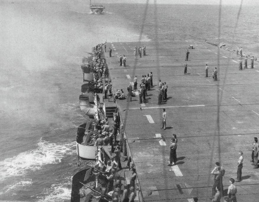 View of a gunnery drill aboard the U.S. Navy escort carrier USS Lunga Point (CVE-94), circa in 1944.